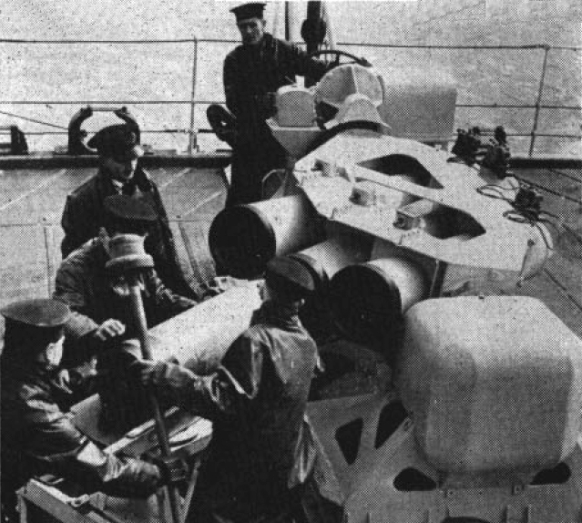 Royal Navy sailors loading a Squid anti-submarine mortar.